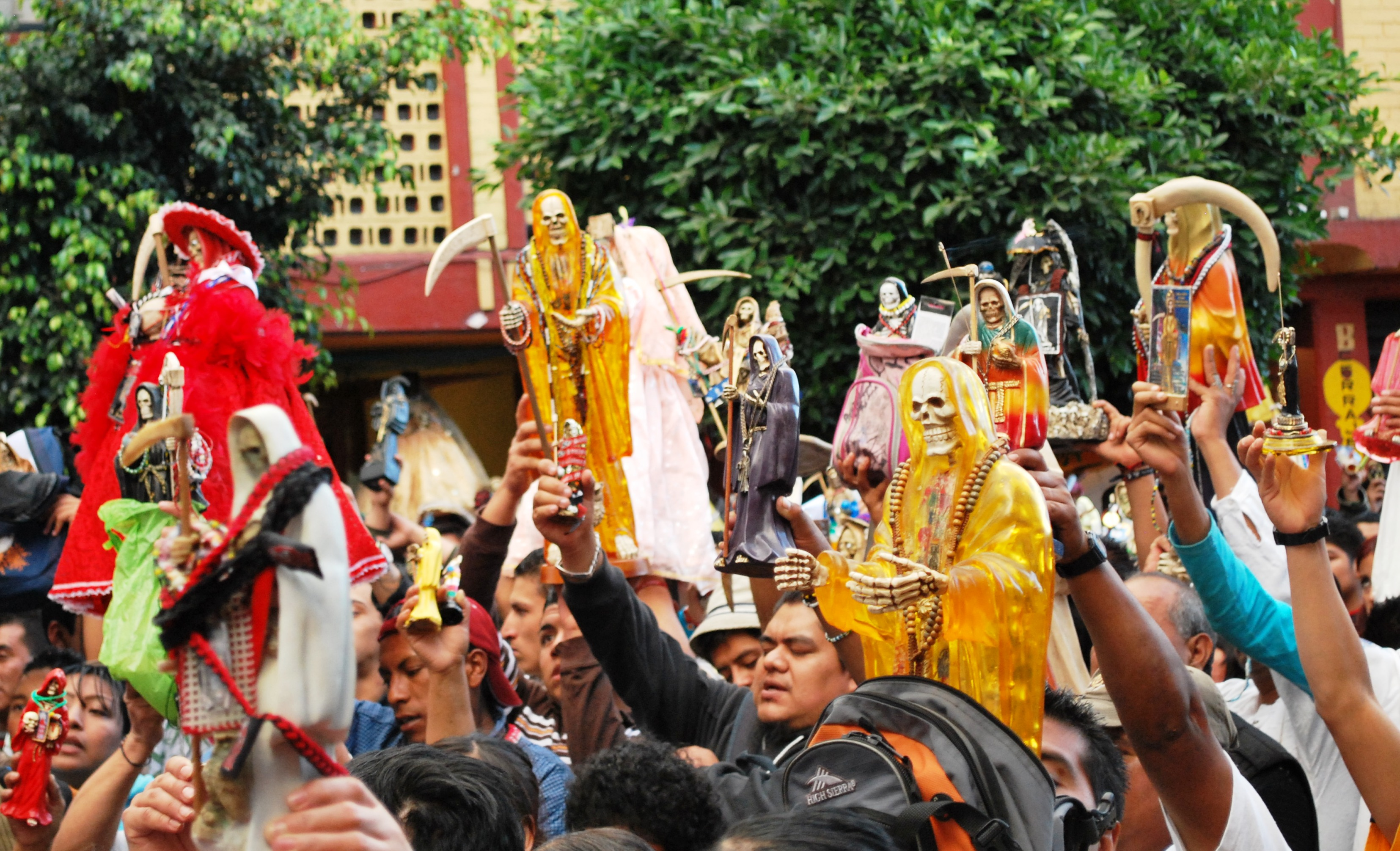 Raising of Santa Muerte images during a service in the deity's honor on Alfareria Street Tepito Mexico City